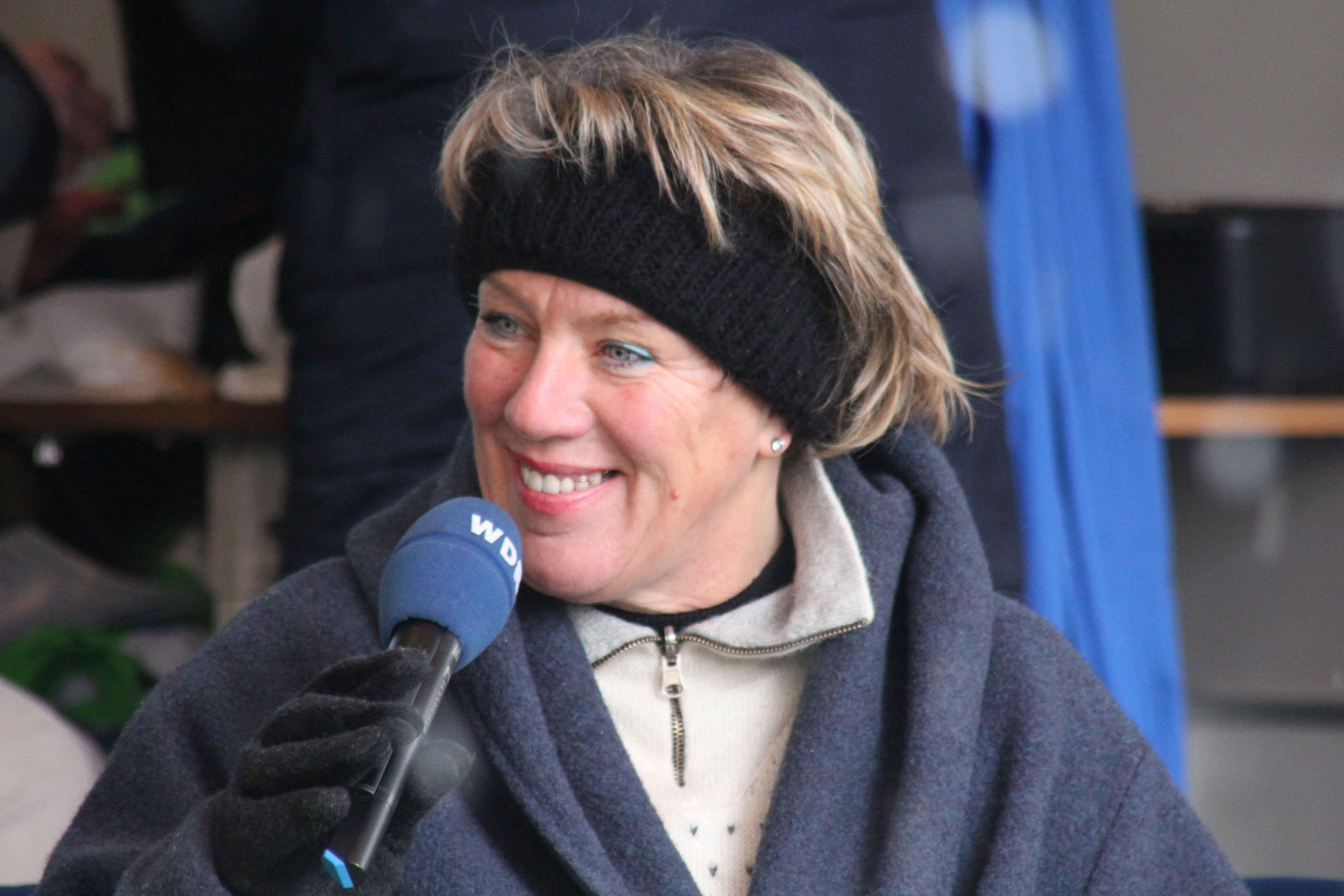 Radioshow "Hallo Ü-Wagen" in Cologne, Germany